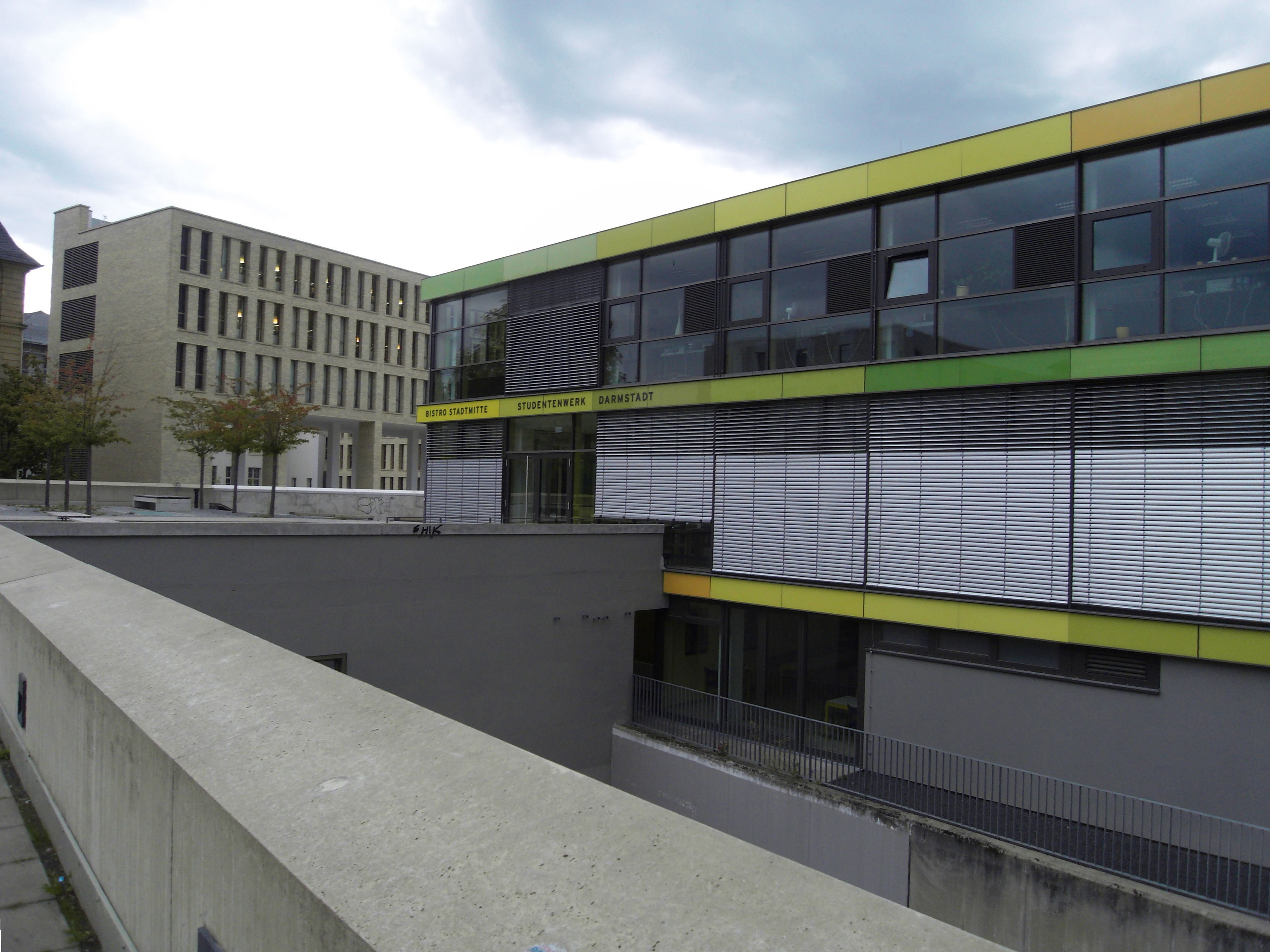 Bistro Darmstadt University of Technology, student Services